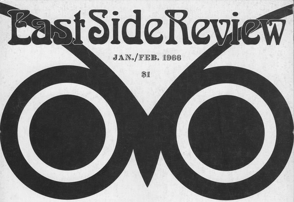 Shepard Sherbell (Hrsg.): East_Side_Review. Vol. I No.1. A Magazine of contemporary culture.